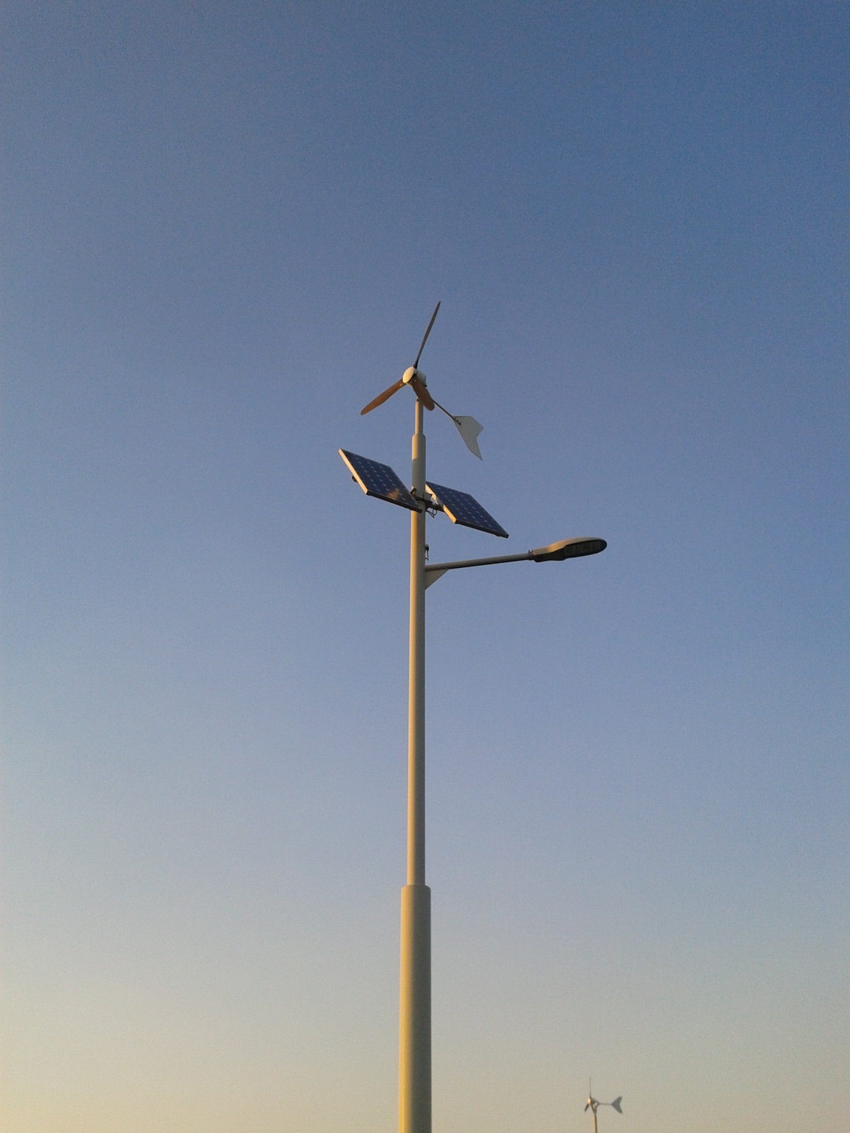 Wind and sun energy street light; NL